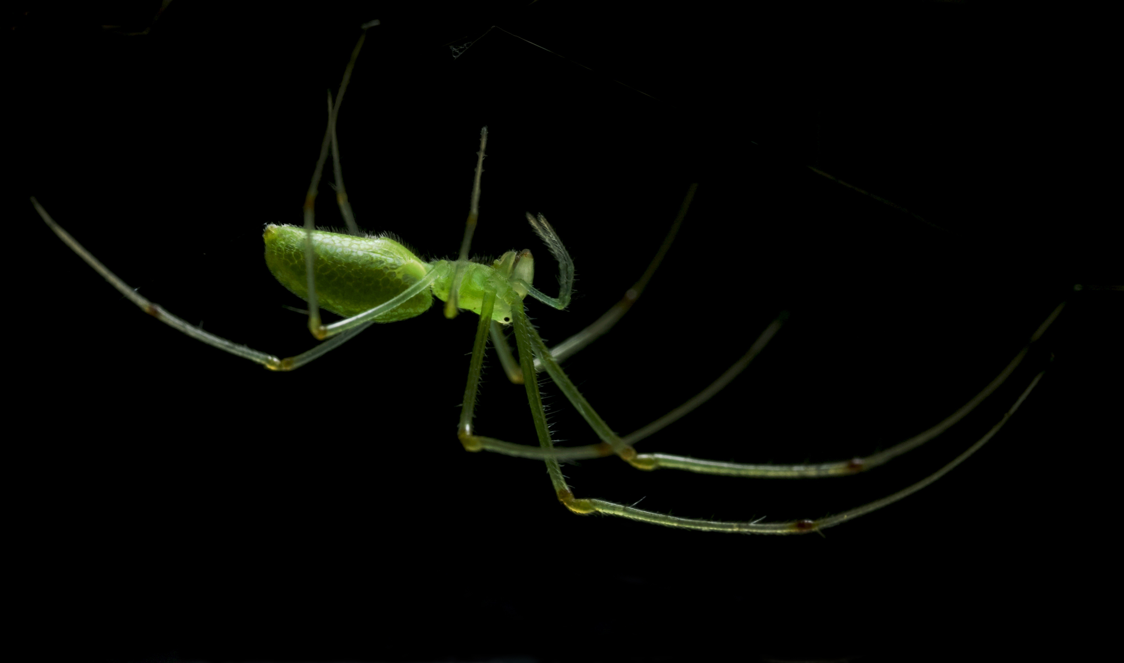 Tetragnatha squamata. This beautiful yellowish green spider is around 7mm long and 5mm wide. It shows a scale-shaped motif on its back and sides. Photographed in Lake Akasaka, in the city of Saitama, Saitama Iwatsuki prefecture, Japan.